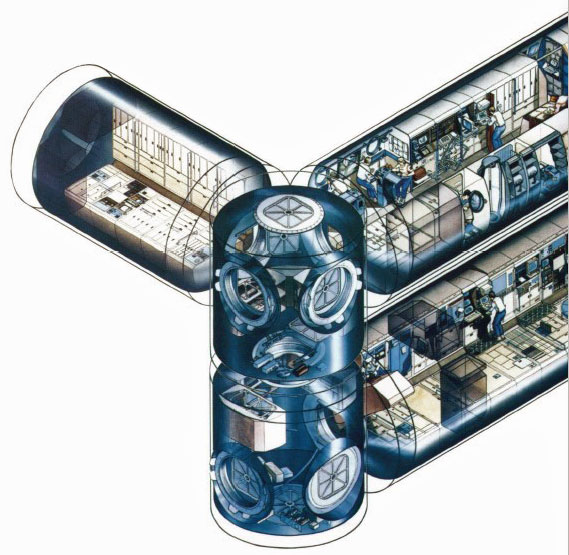 Lightly enhanced screen shot of the pdf original.